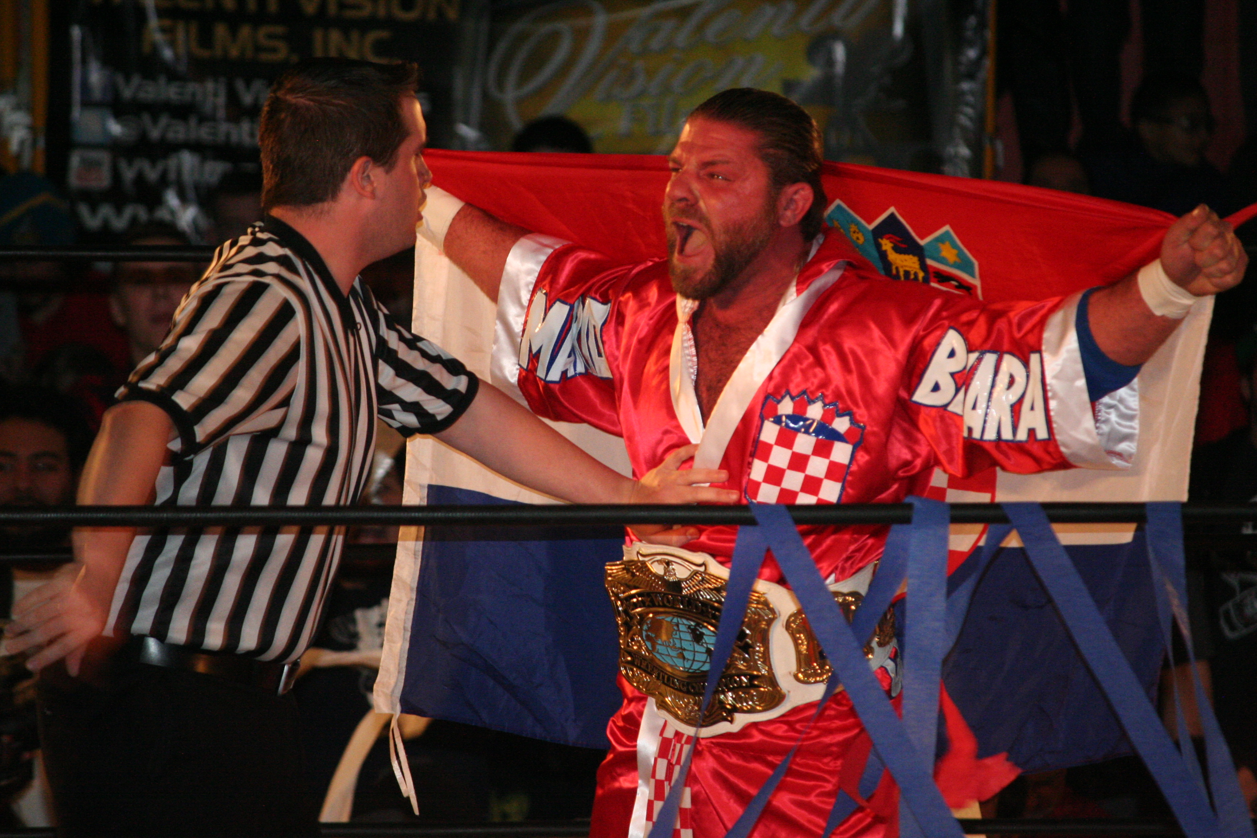 Bokara at a PWS show in Rahway, New Jersey in 2014.